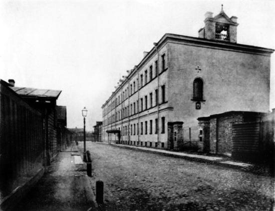 Дом трудолюбия Петровского общества вспоможения бедным прихода Введенской церкви на Стрельнинской ул. д.11